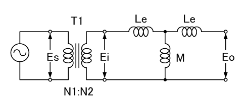 equivalent circuit of the transformer